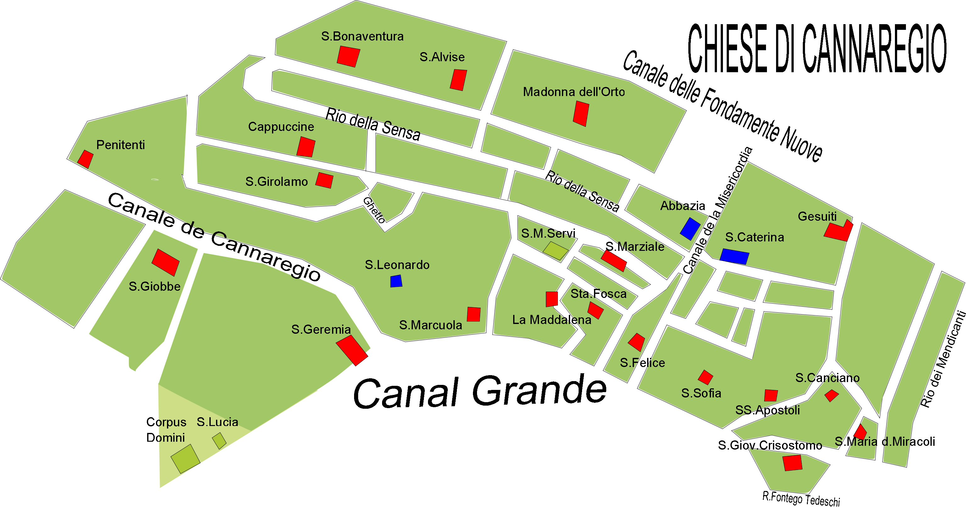 churches of Cannaregio - map